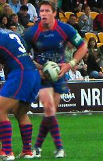 Kurt Gidley